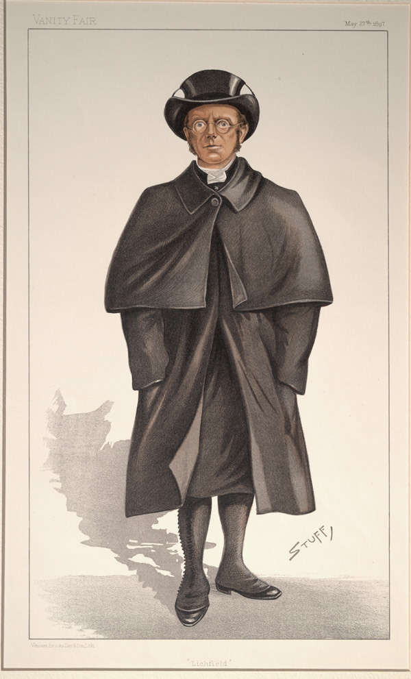 Caricature of Augustus Legge. Caption read "Lichfield".